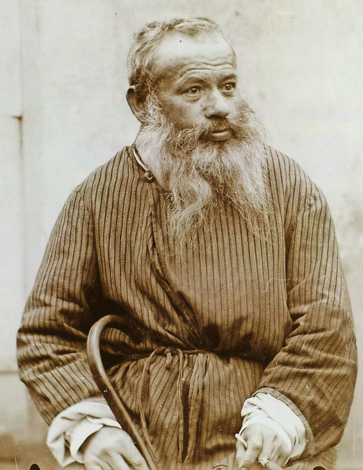 Jakob Alešovec (1842-1901), slovene writer, dramatist, satirist and journalist.